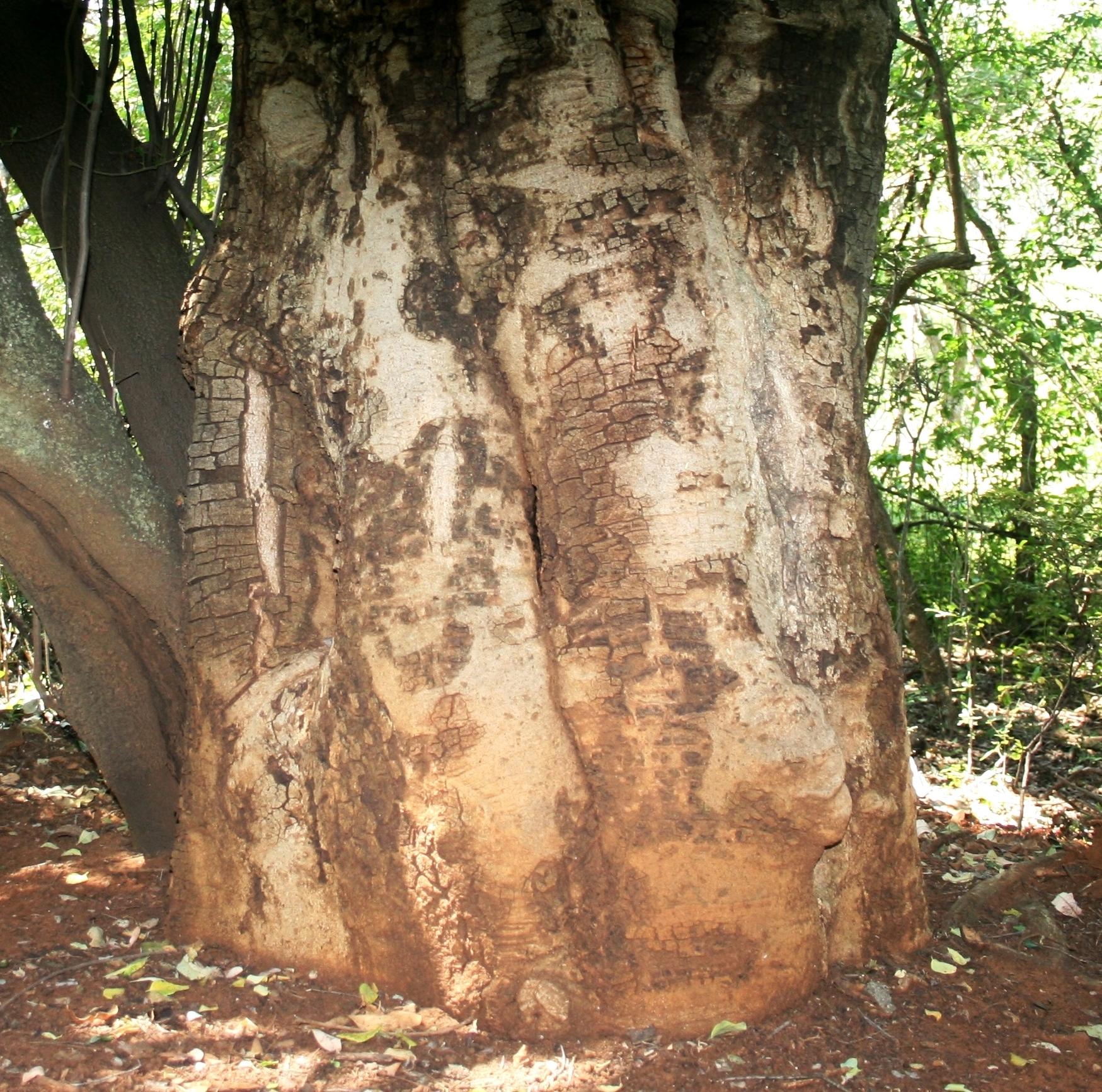 Trunk of a large Pappea capensis tree at De Wildt 4x4 Game Park